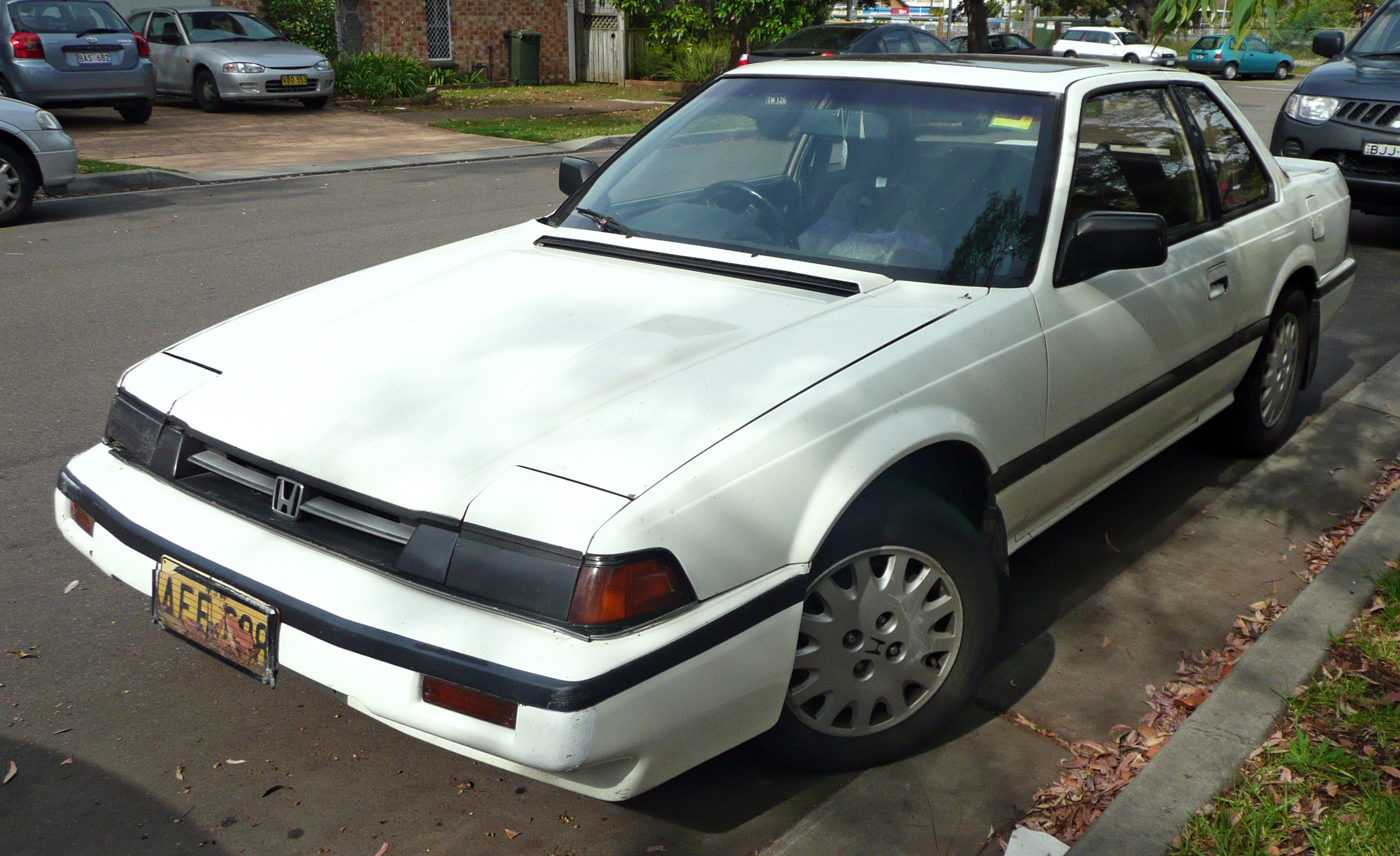 1986–1987 Honda Prelude Si coupe. Photographed in Sutherland, New South Wales, Australia.